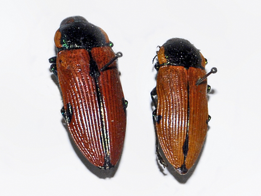 Temognatha variabilis. Mounted specimen. On display at the Civico Museo di Storia Naturale di Trieste